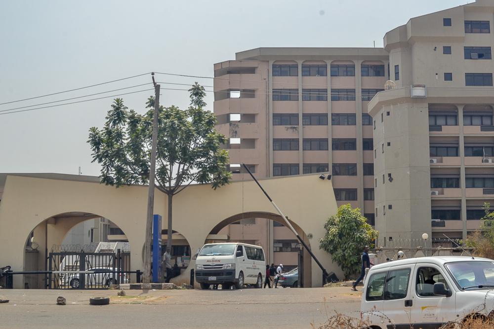 WAEC Headquarter, Abuja